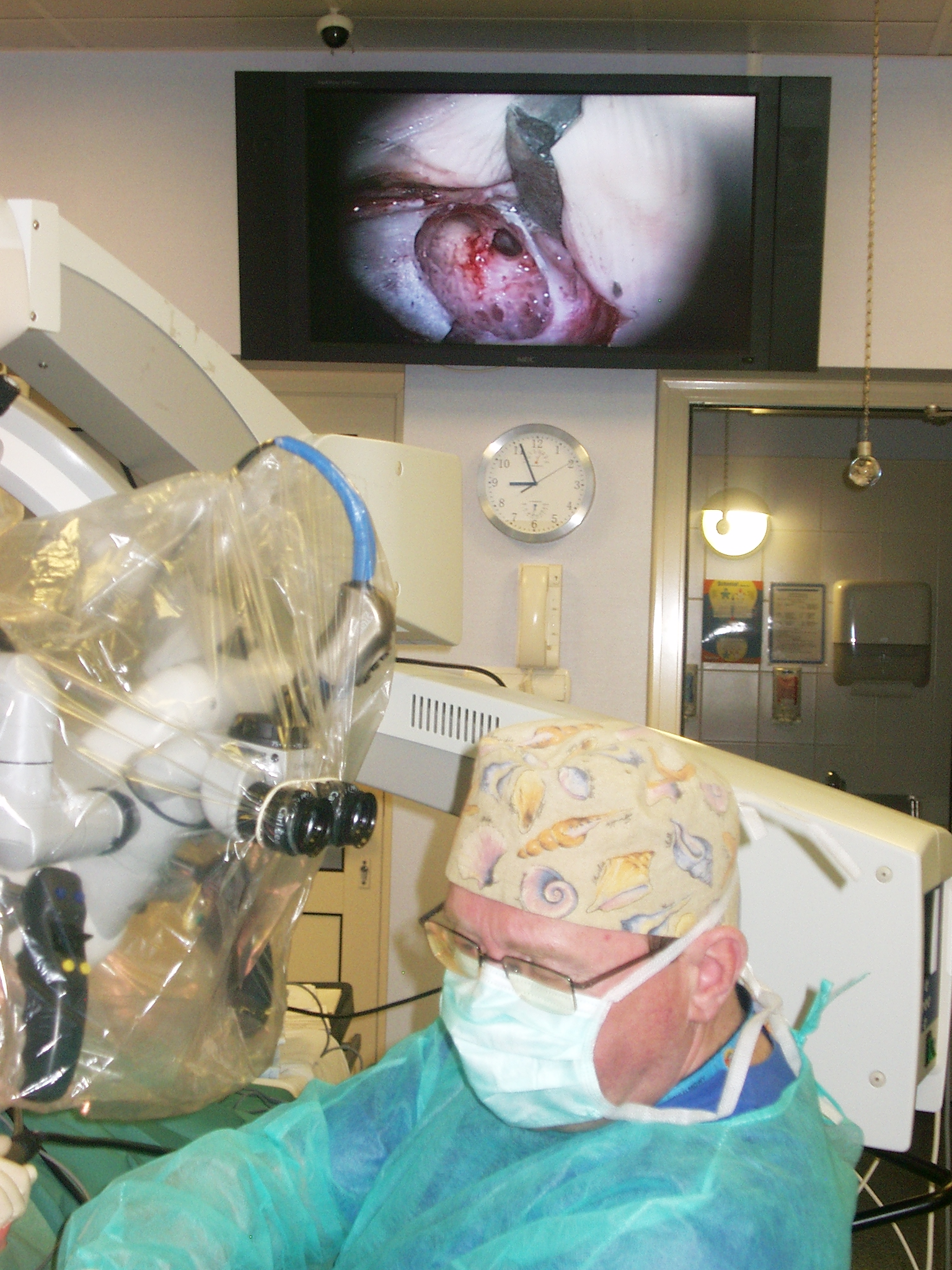 Partial Deafness Cochlear Implantation (PDCI) by Prof. H. Skarżyński